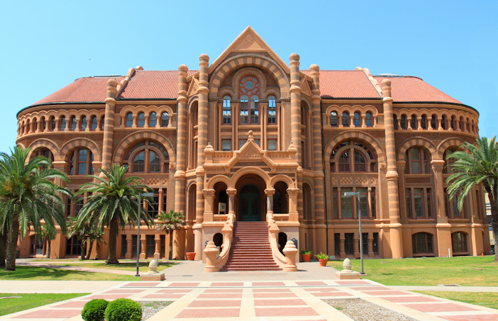 1890 Ashbel Smith Building on the campus of the University of Texas Medical Branch on Galveston Island, Texas, USA